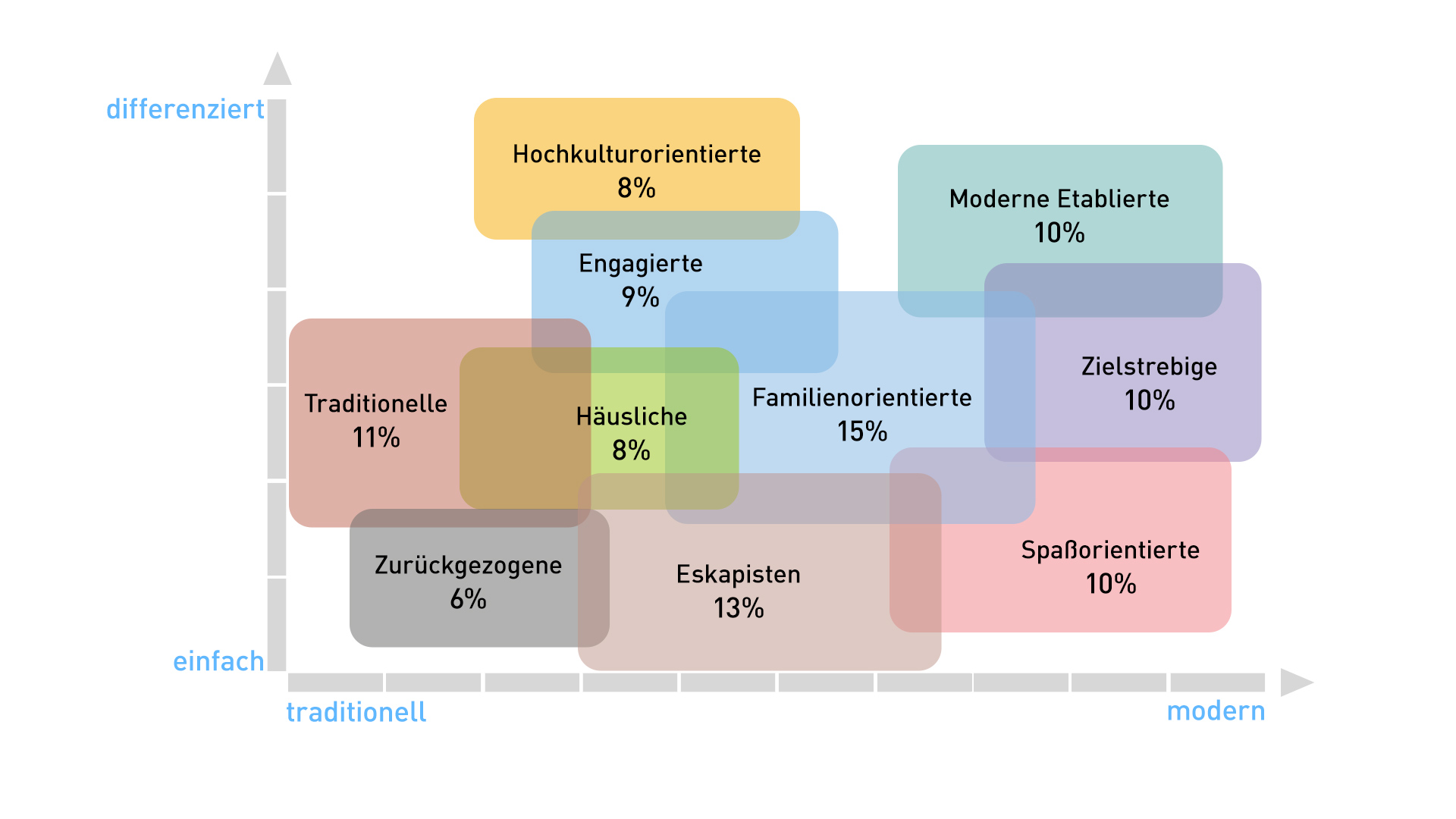 An overview of consumer types used in the MedienNutzerTypologie taxonomy developed and used by ARD and ZDF media research. It shows the ten types of media consumption ordered along two dichotomial axes: "traditional vs. modern", and "simple vs. differentiated media usage"